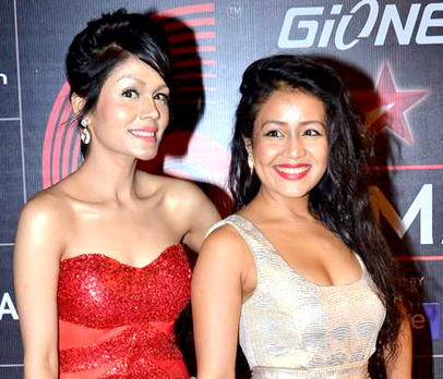 Neha Kakkar and Sonu Kakkar at Global Indian Music Academy Awards